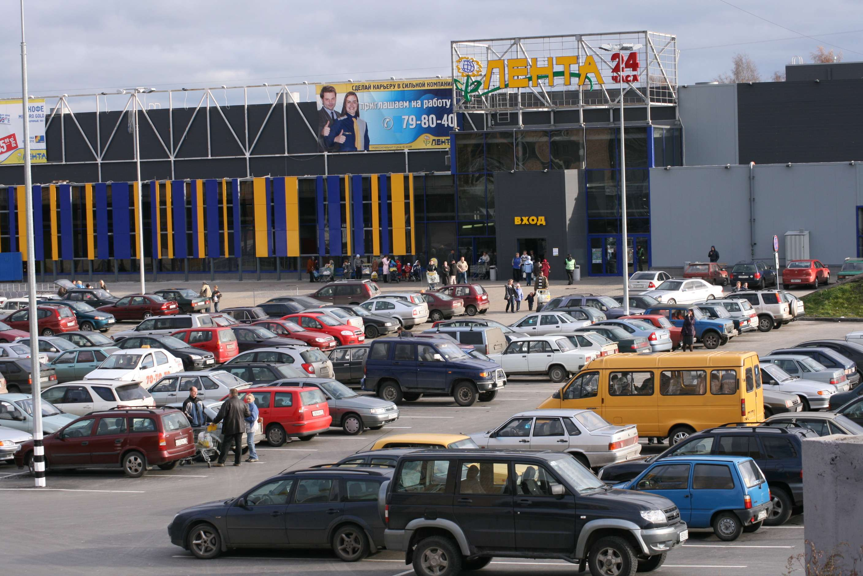 Petrozavodsk Mall Lenta